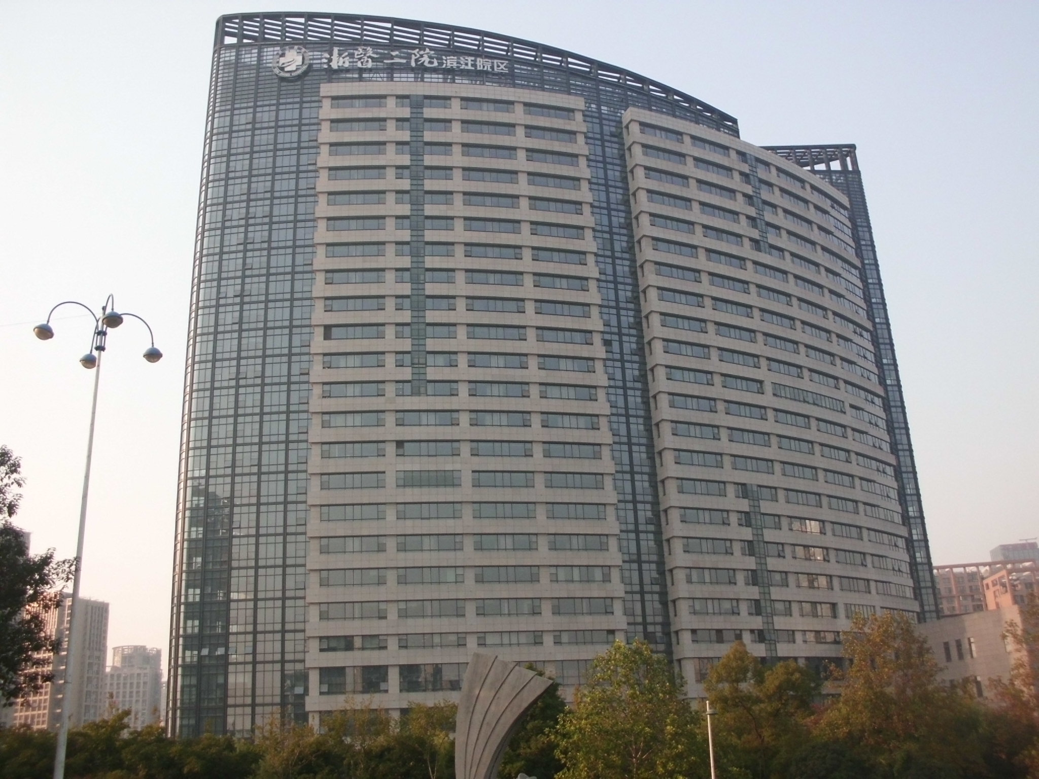 Bin Jiang Hospital